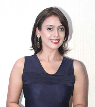 Hrishitaa Bhatt during trailer launch of the film 'Chal Jaa Bapu'